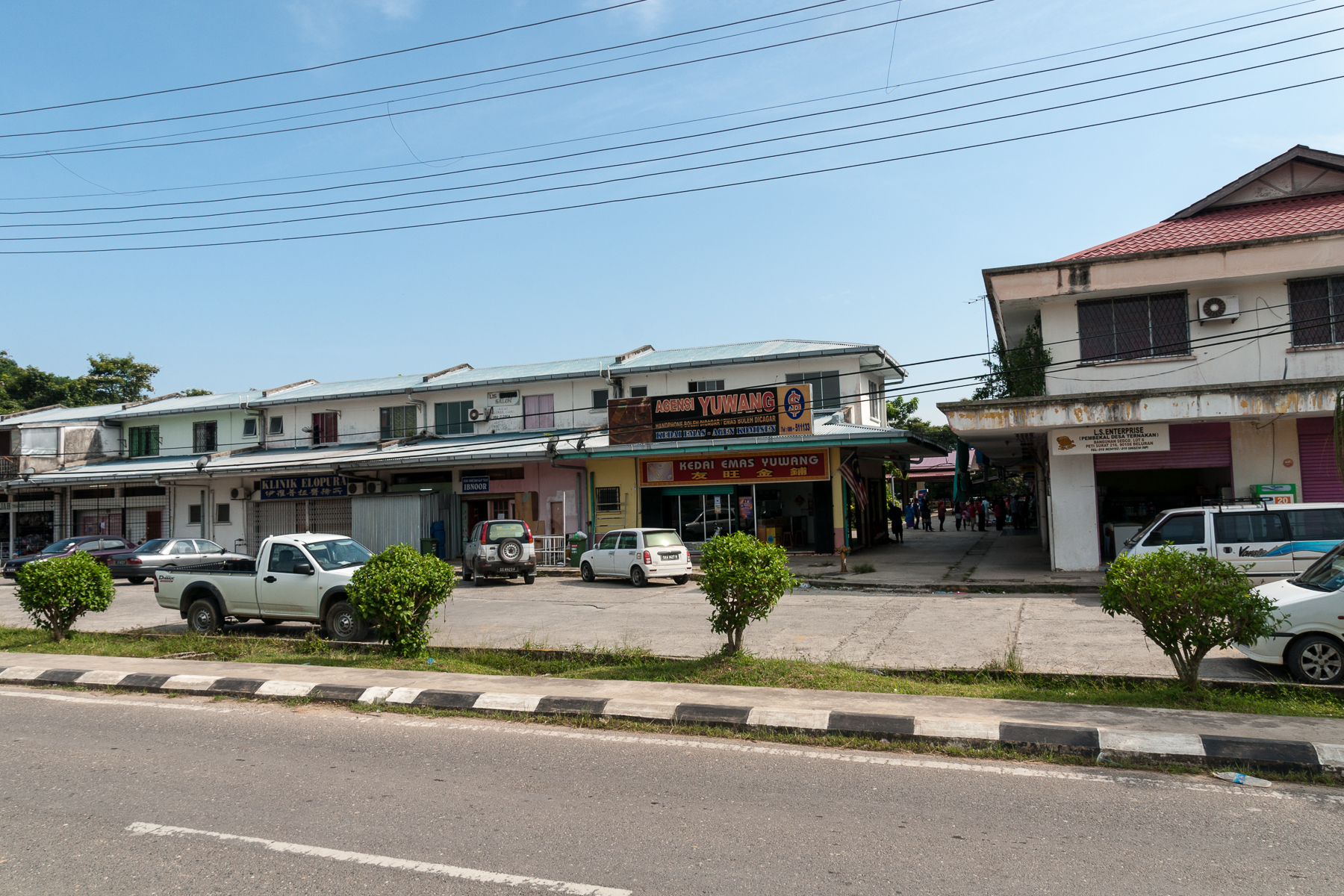 Beluran, Sabah: Pekan Beluran